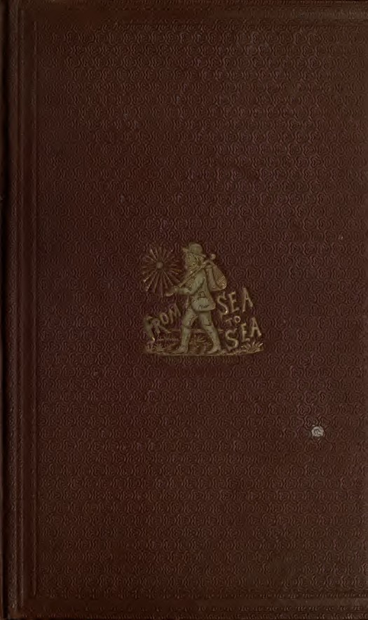 POWERS, Stephen (1840-1904). Afoot and Alone: A Walk from Sea to Sea by the Southern Route. Adventures and Observations in Southern California, New Mexico, Arizona, Texas, etc.... Hartford: Columbian Book Company, 1872